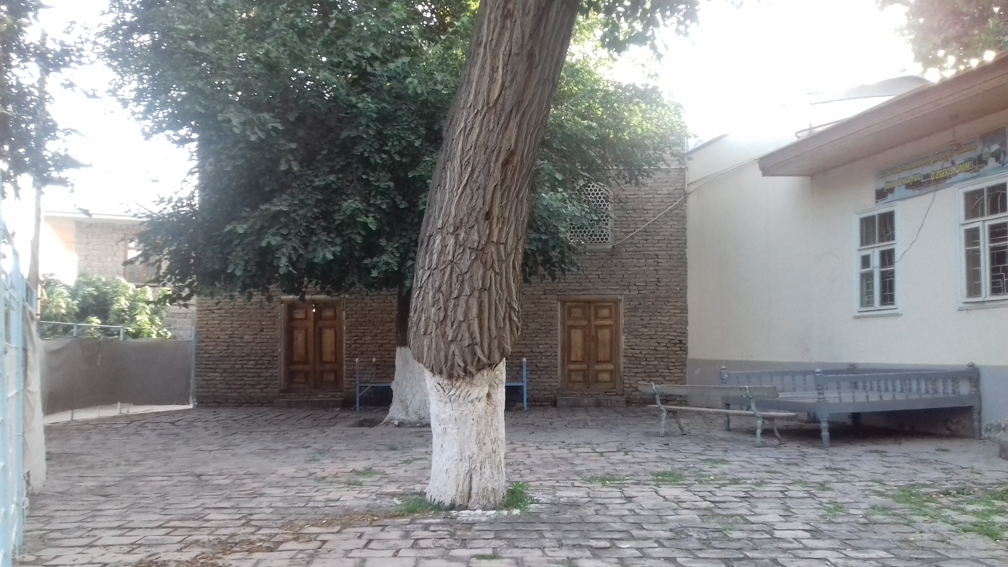 Kurgancha Mosque in Samarkand (Uzbekistan)